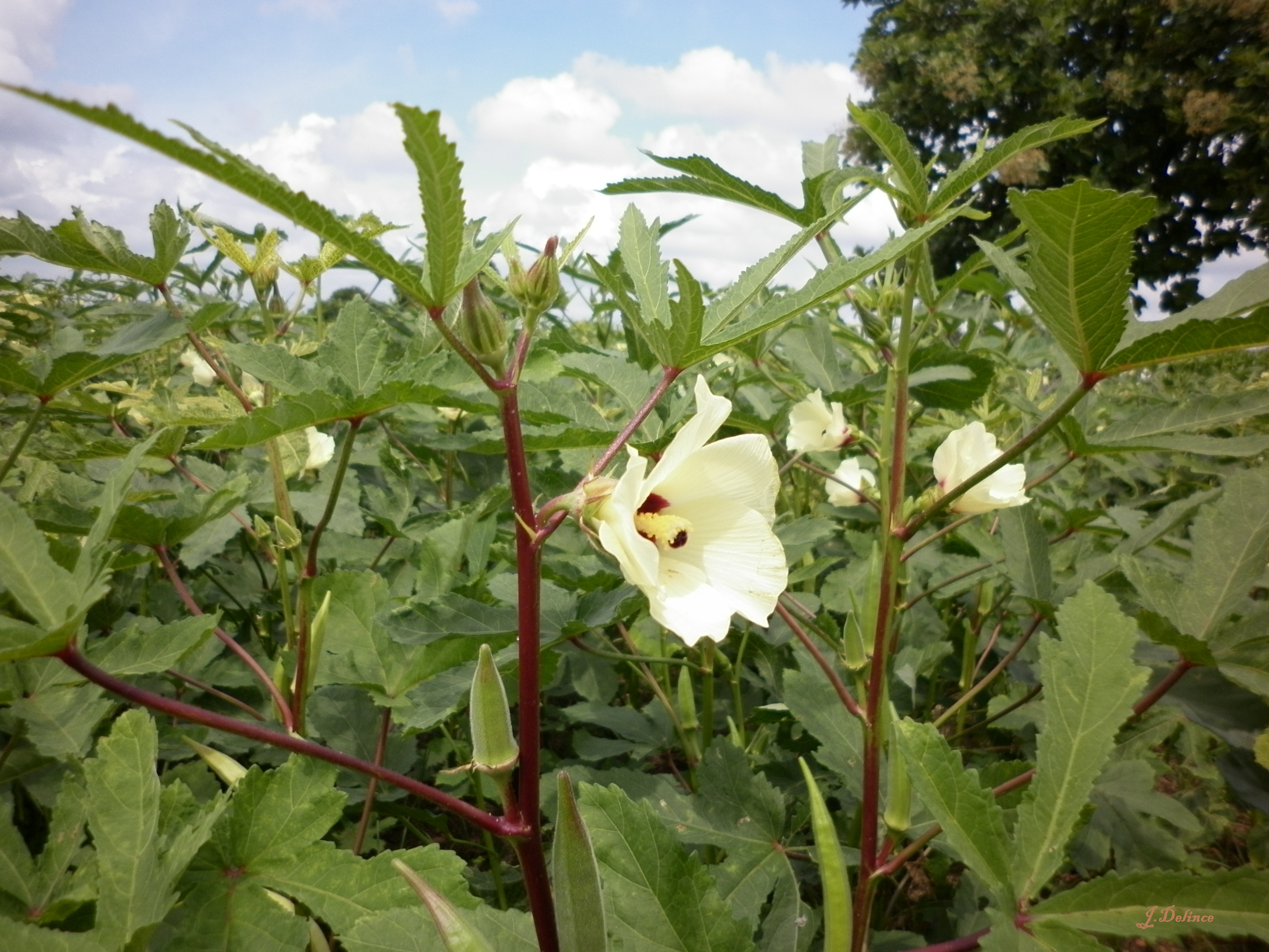 Taken in ARS Kovilpatti,Tamilnadu,India